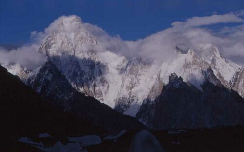 Gasherbrum IV